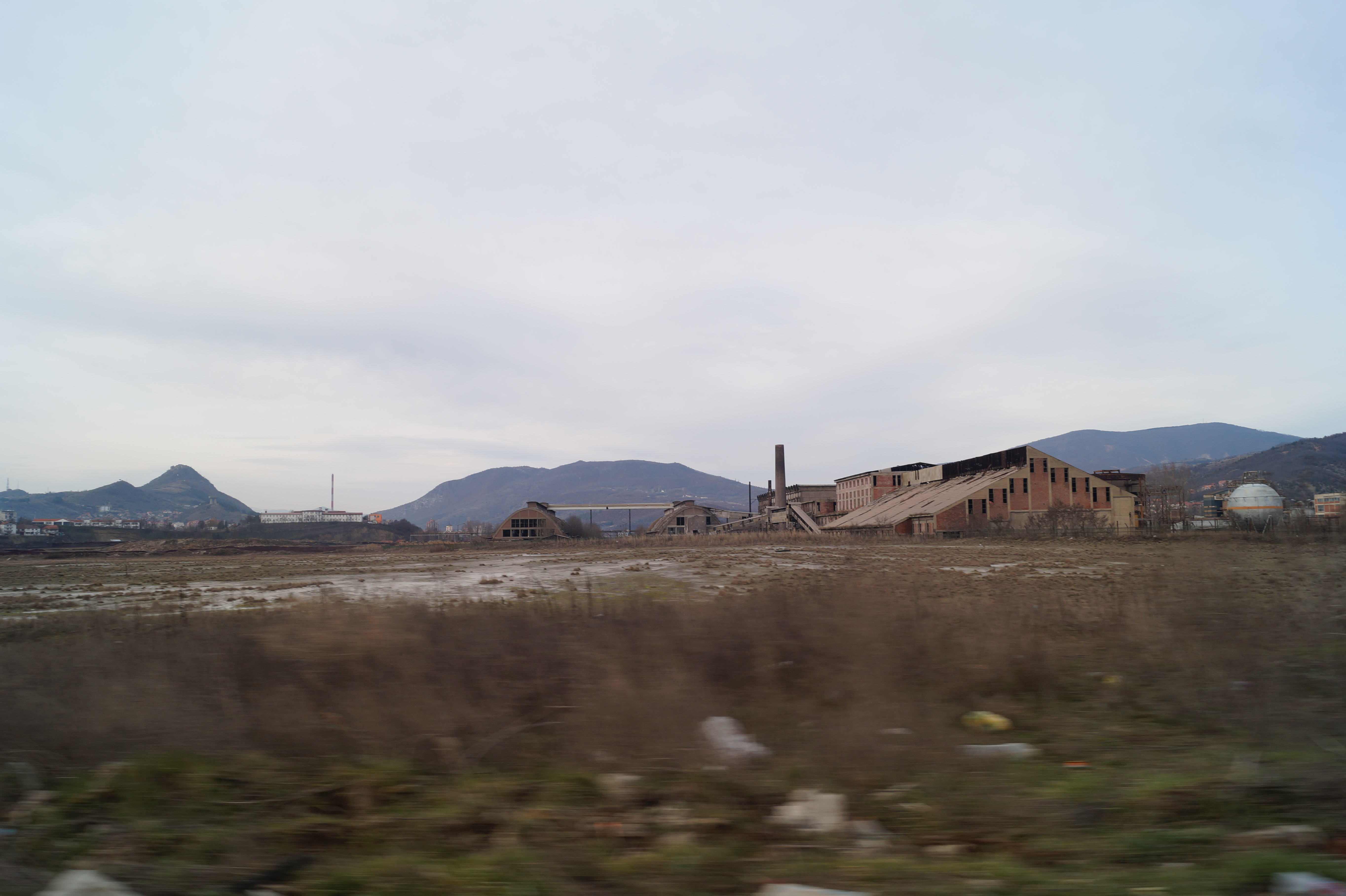 You can find these ruins in the entrance of the city, and certainly Mitrovica is considered to be an industrial city because of Trepça which is the biggest mine in the country.